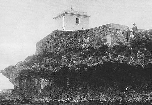 Mie Gusuku